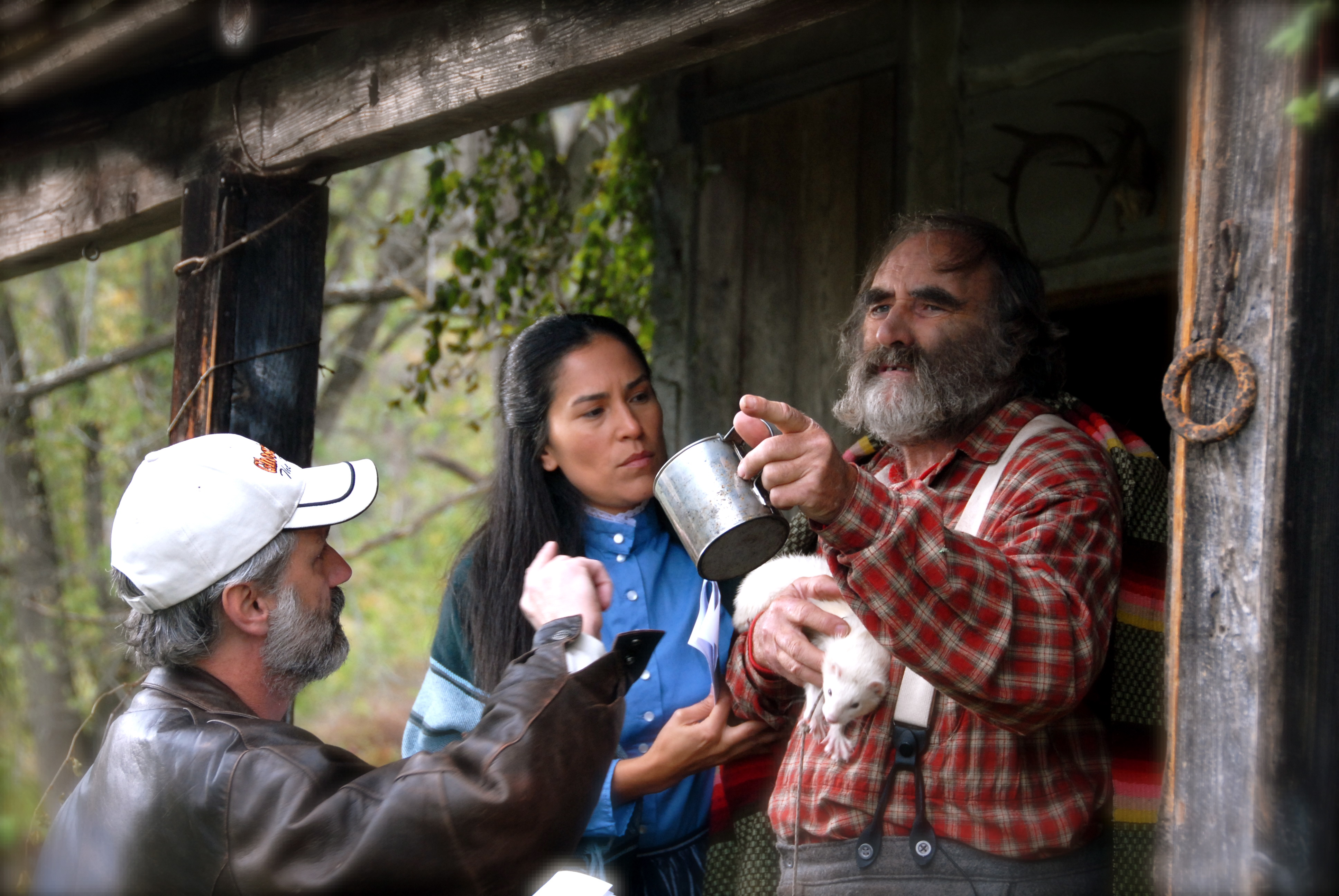 Dean Teaster directs Herbert'Cowboy' Coward and Princess Lucaj on the set location in Canton North Carolina, October 2006